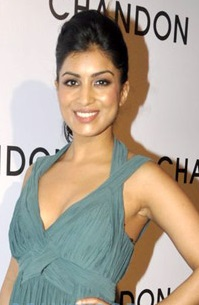 Pallavi Sharda at CHANDON launch